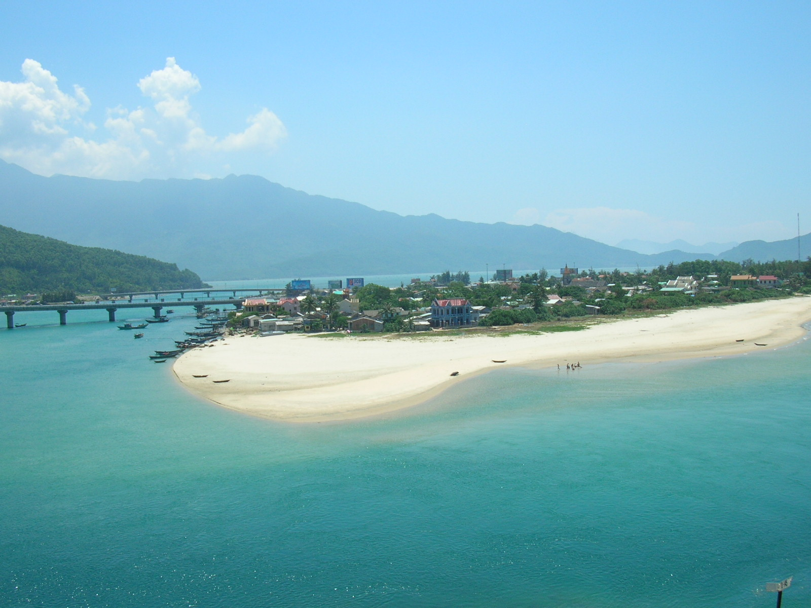 Lang Co beache, Hue, Vietnam. Friday, May 19, 2006, 12:20:52 AM